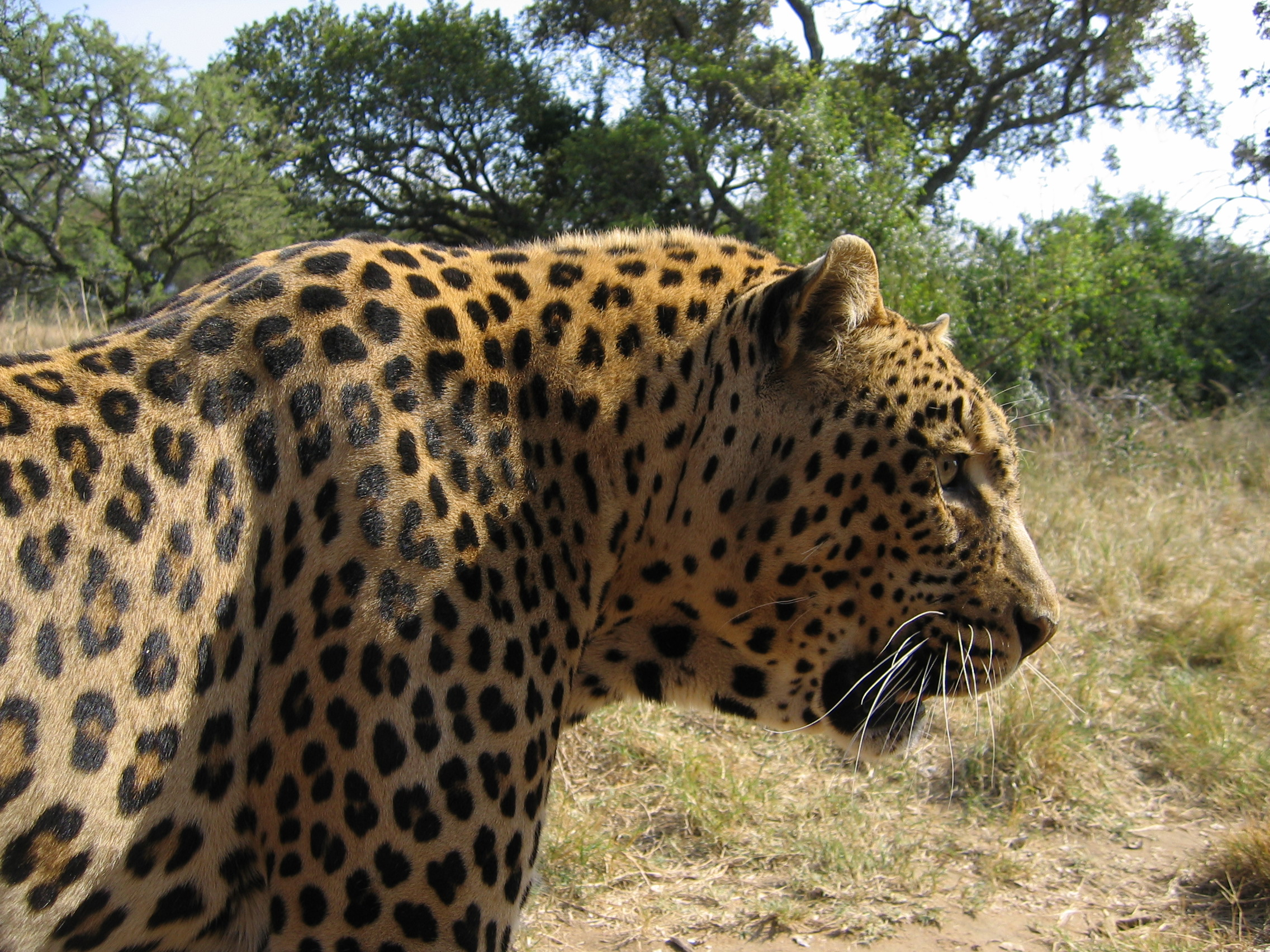 Leopard in Kruger National Park, South Africa.